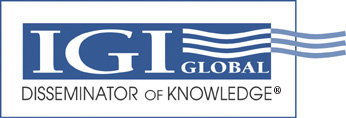 IGI Global Logo